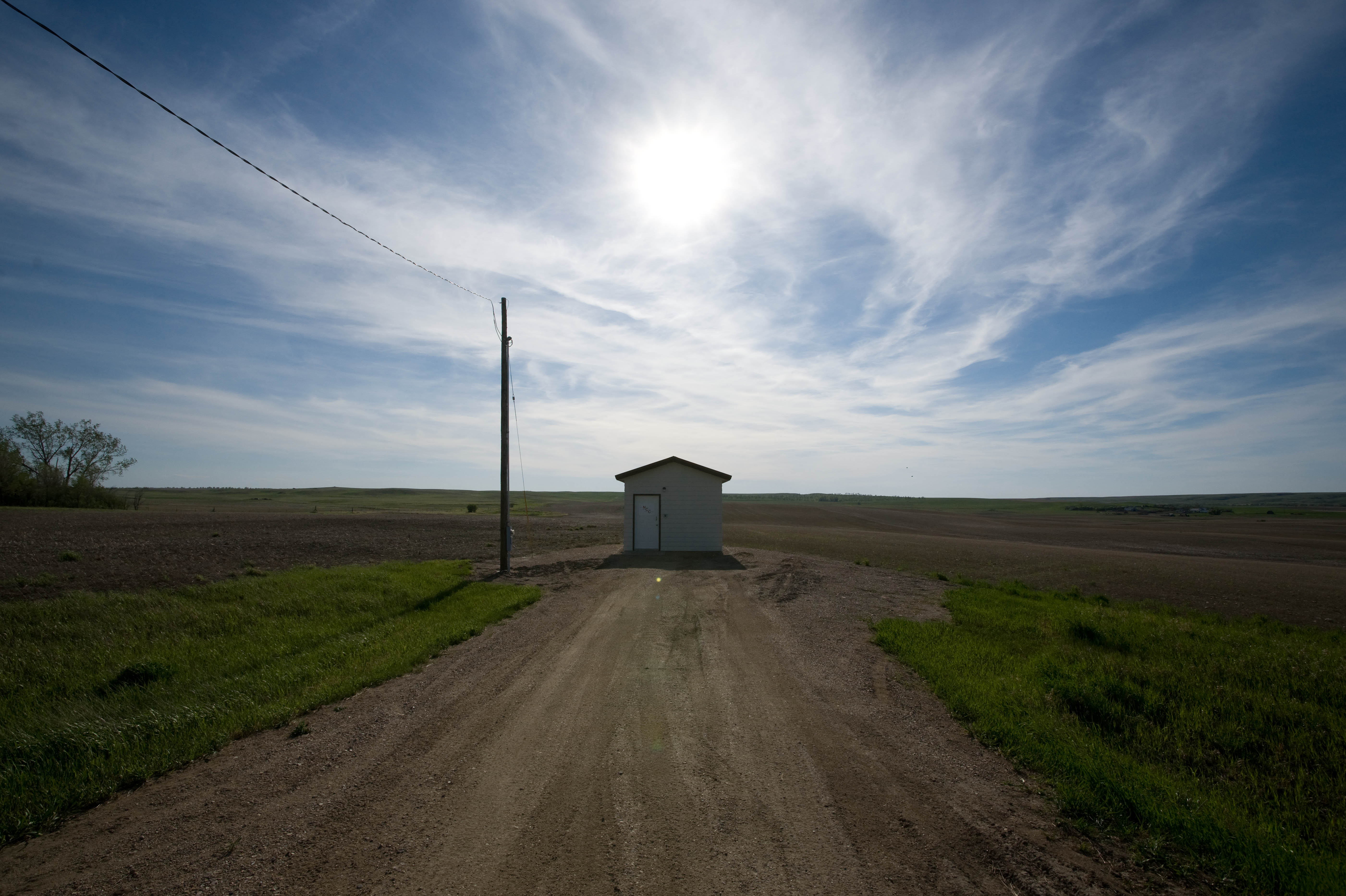 From